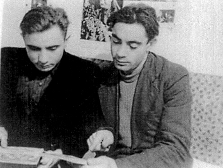 V. Kmetsynskyi with friend. The 50 years of XX century. Chernivtsi city.